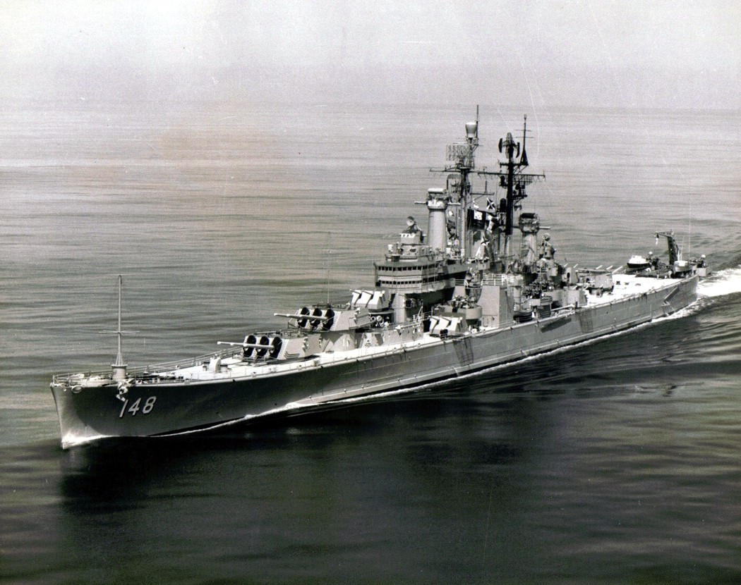 The U.S. Navy heavy cruiser USS Newport News (CA-148) underway in the Western Atlantic, in August 1962, after her modification as flagship. She participated in NATO exercise "Riptide III", as flagship of ComStrikFltLant, the NATO role of Commander Second Fleet.